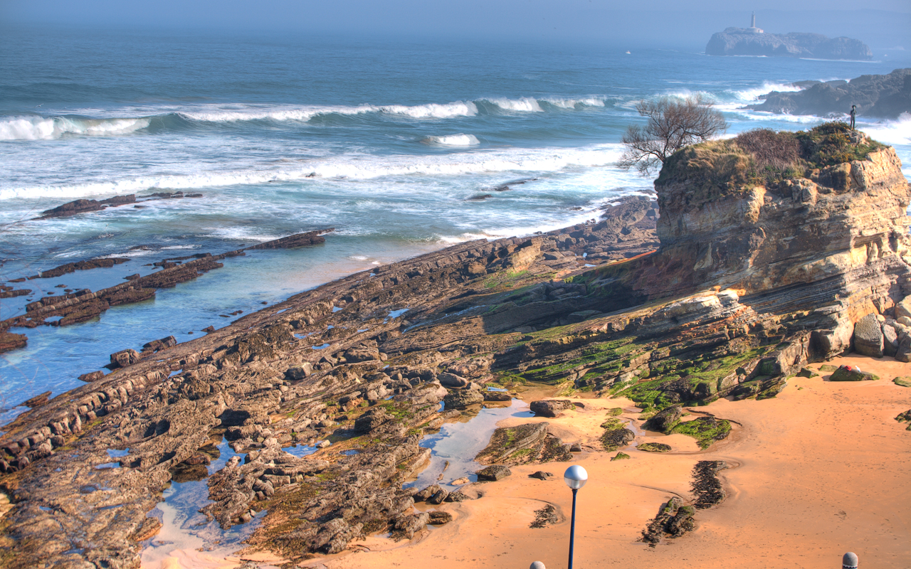 El Camello beach in Santander (Cantabria, Spain)